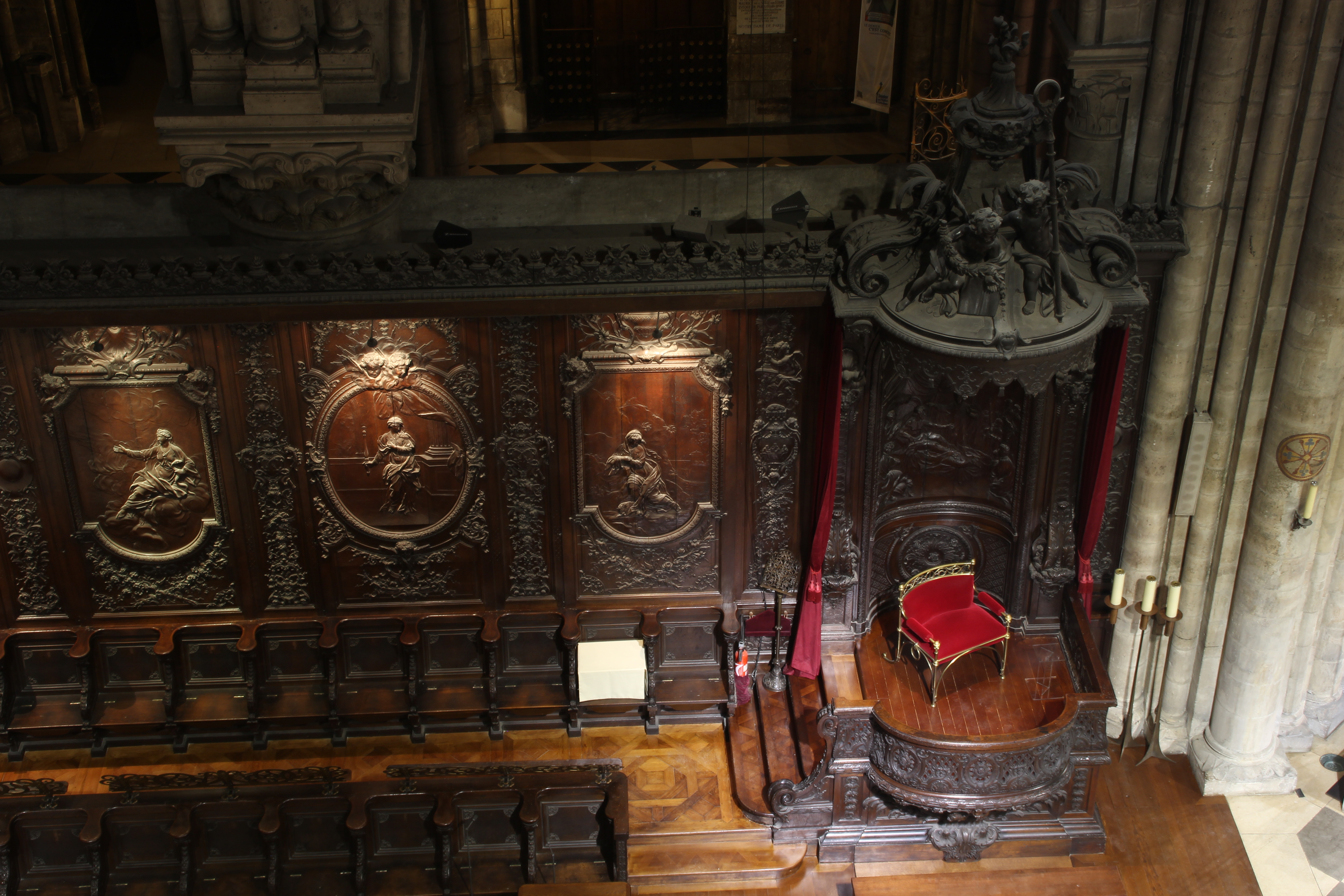 Visit of the cathedral during the exhibition of the new bells in Notre-Dame de Paris, France in 2013.